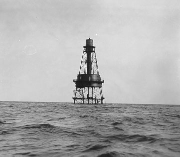 Carysfort Reef Light. Copied from [1]. No photo number/caption/date; photographer unknown. Ownership disclaimer at [2] says, "Information presented on this web site is considered public information and may be distributed or copied."